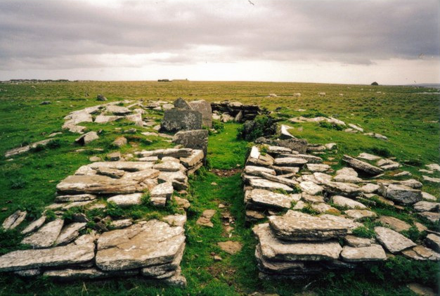 Chambered Cairn Remains. Remains of chambered cairn at the north end of Holm of Papa. In the distance you can just see the impressive Chambered Cairn at the south end of this tiny island and I think the longest chambered cairn in Orkney. There were Fulmars nesting in the stalls of the chambered cairn in the foreground.